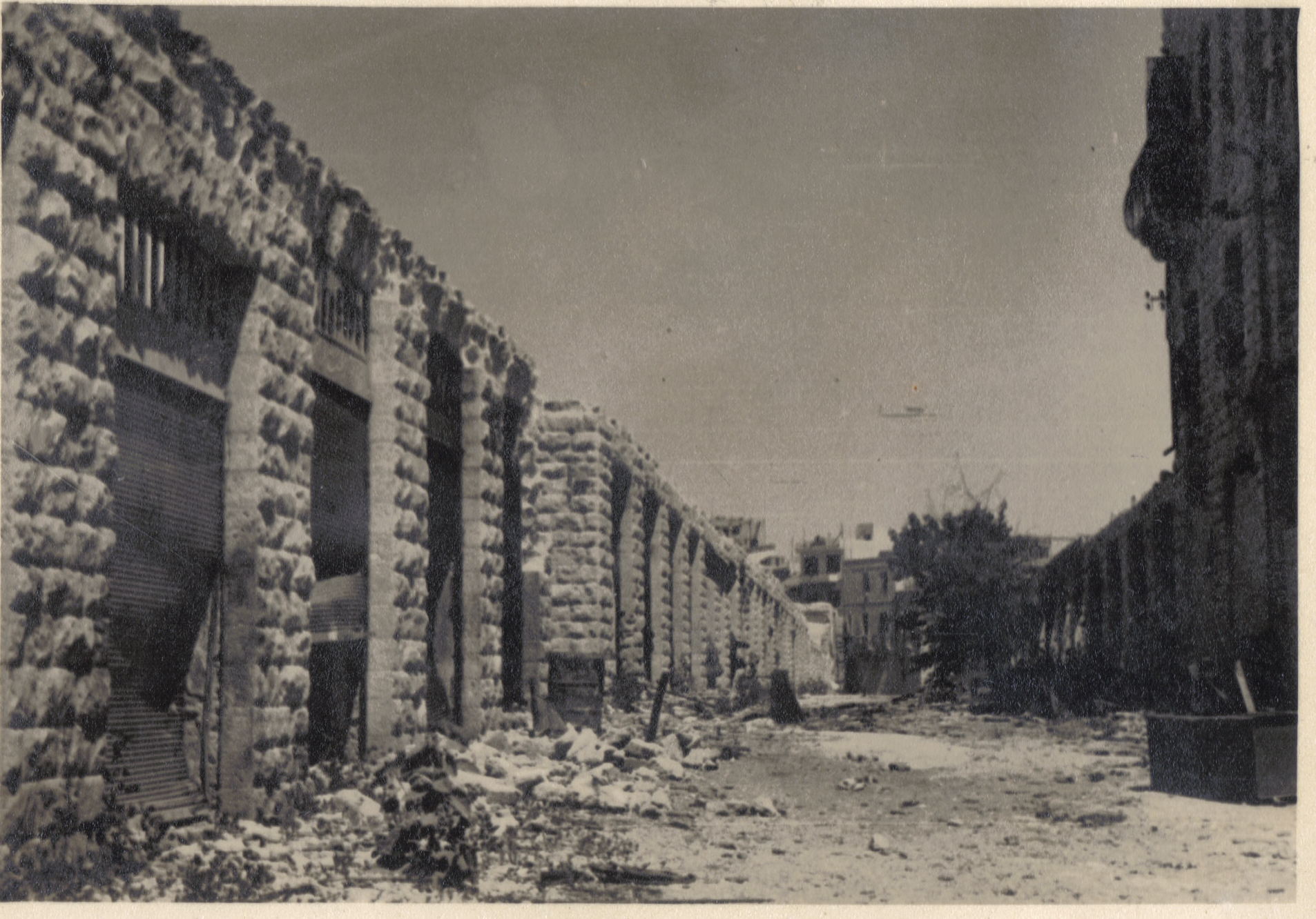 Mamila, Jerusalem 1949, Israel Defense Forces